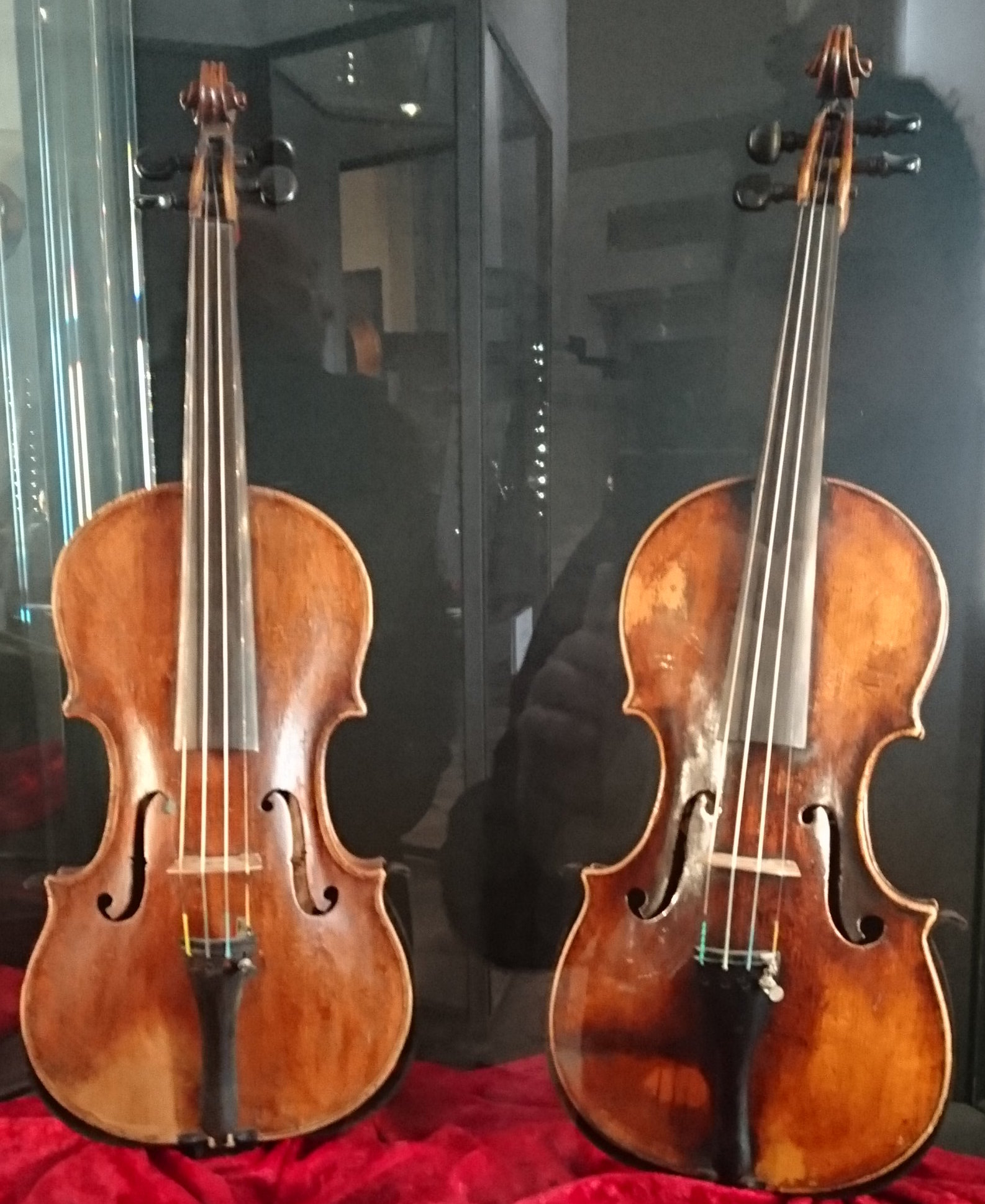 This image shows two violins. Joseph Odoardi, Ascoli, 1776 Giovanni Grancino, Milano, 1710 Artemio Maestro Versari collection